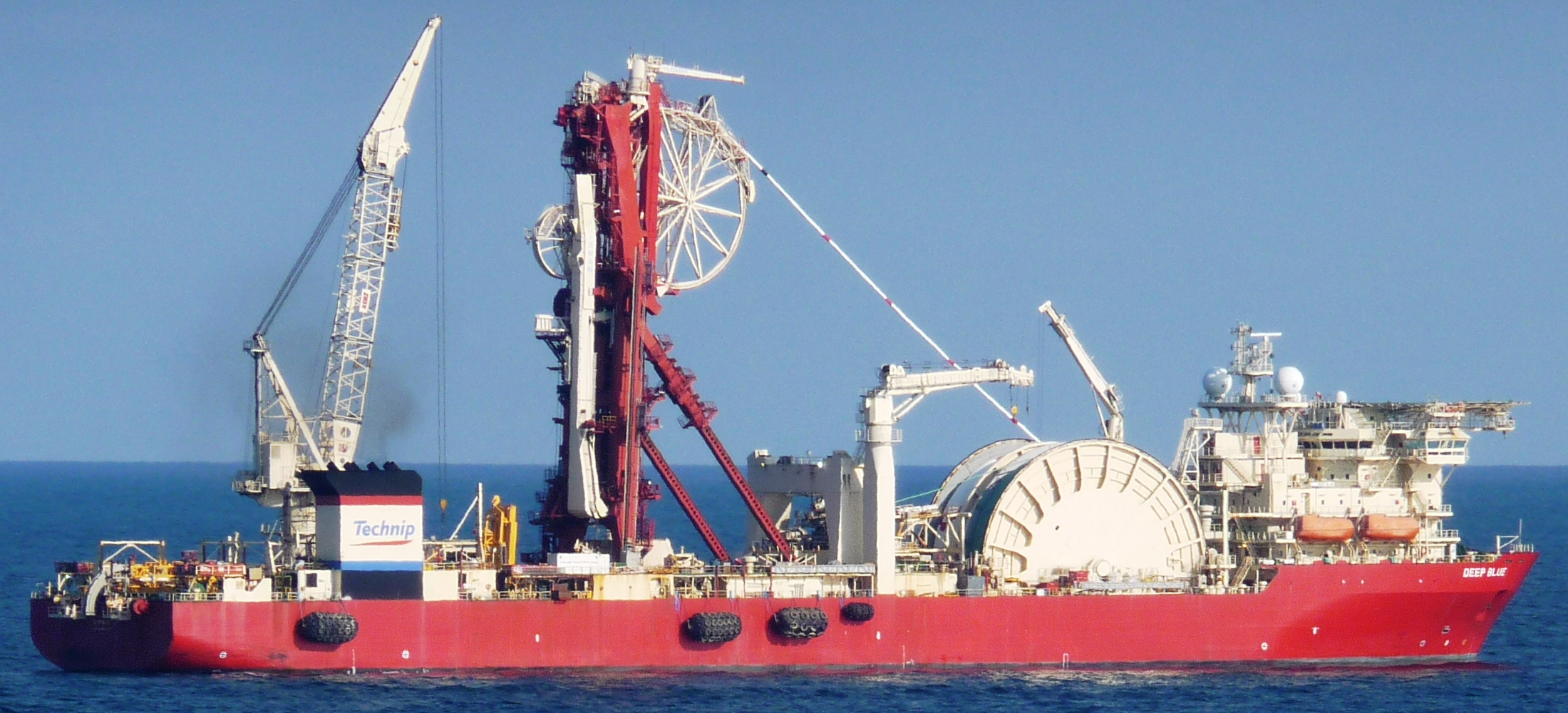 Reel lay vessel Deep Blue at Cascade